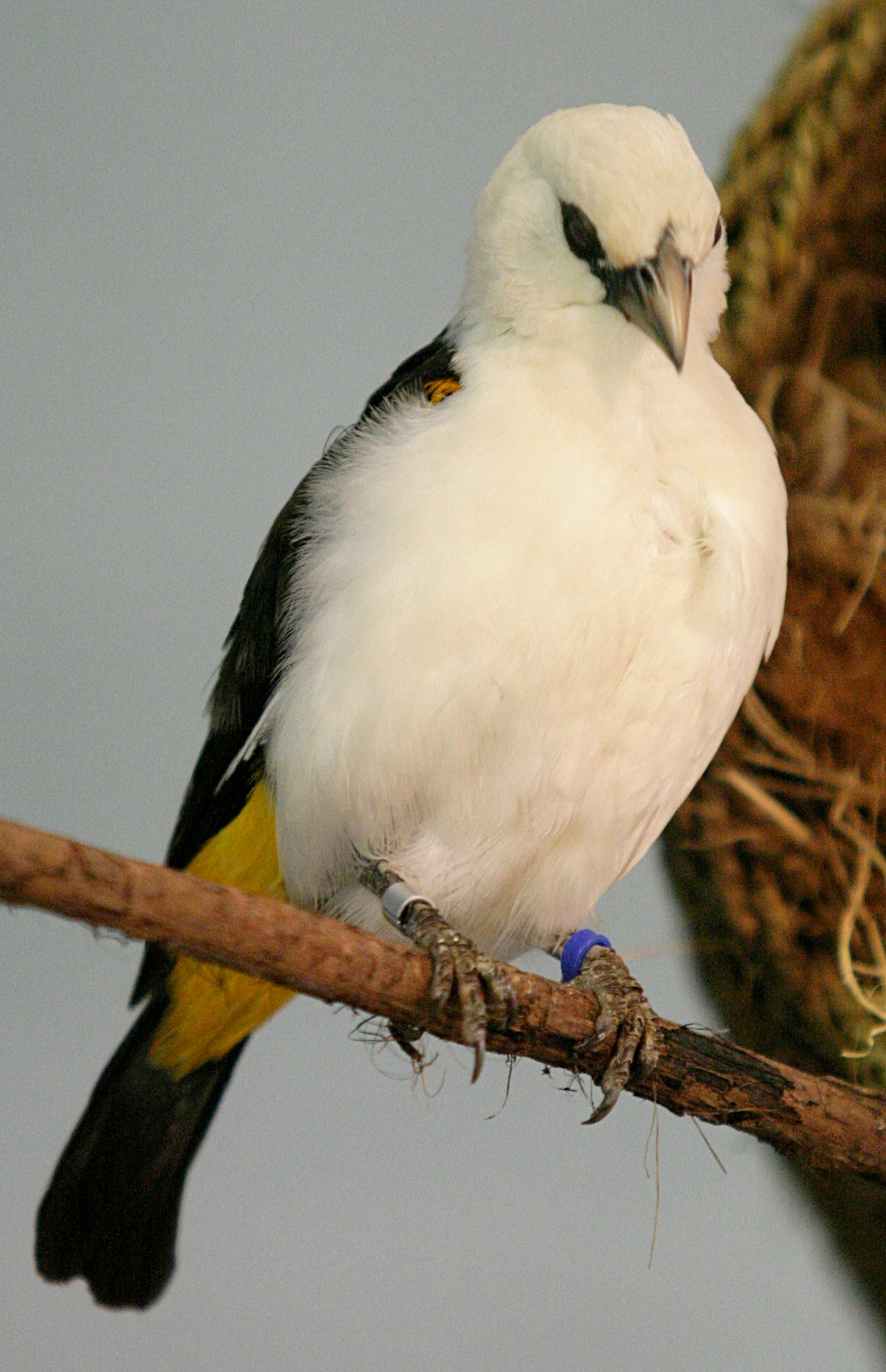 White-headed Buffalo-weaver at the Milwaukee County Zoological Gardens in Milwaukee, Wisconsin.